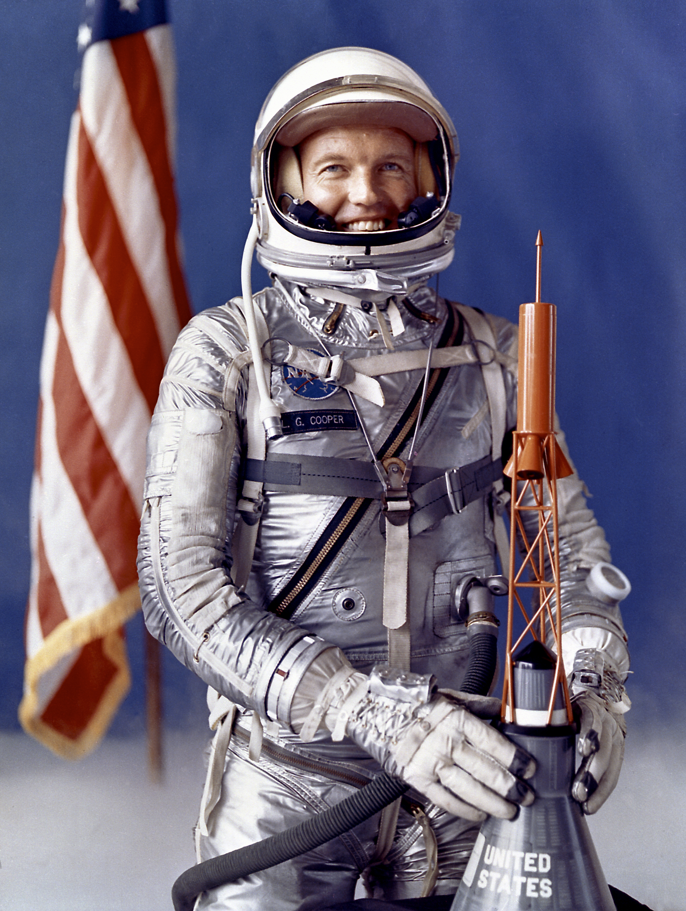 Official portrait of L. Gordon Cooper Jr. in pressure suit and helmet. Image ID: S62-05530